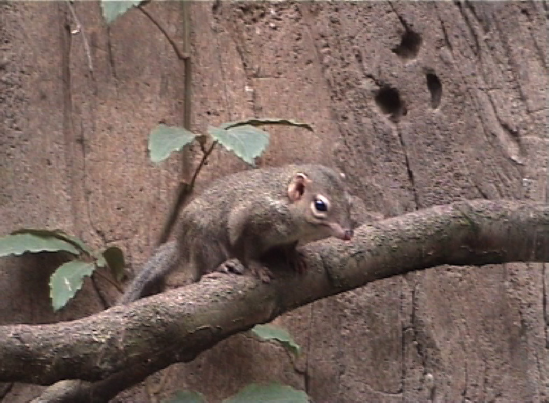 This is a picture of the northern tree shrew taken by Jonathan Beilby at Chester zoo